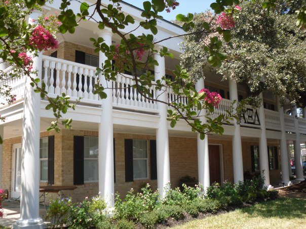 Beta Alpha Chapter of Alpha Xi Delta House at the University of Texas at Austin